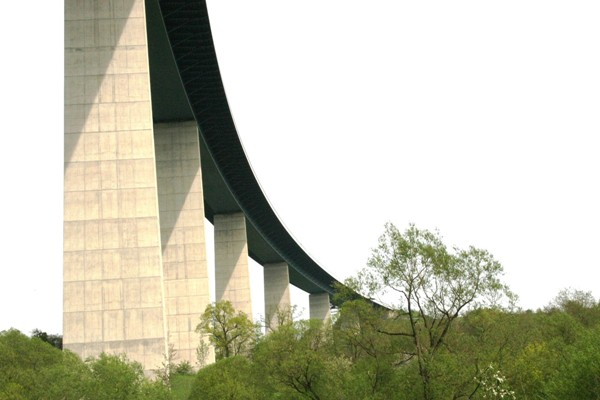 Bridge over the Valley of Sûre, Luxembourg.